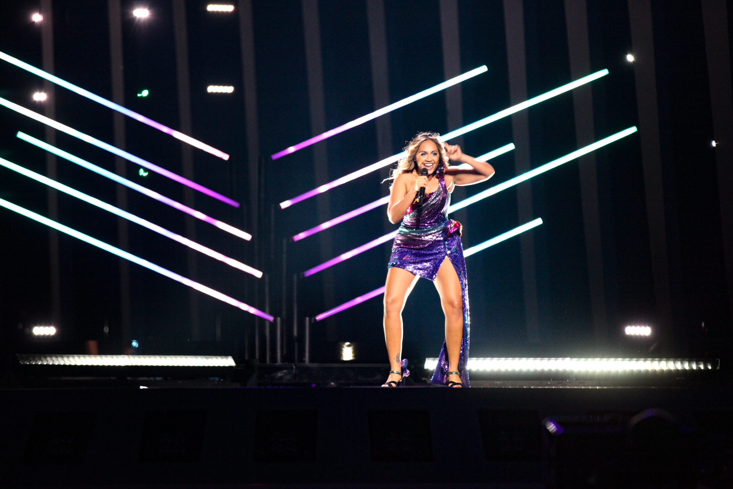 Jessica Mauboy representing Australia with the song "We Got Love" during a rehearsal before the second semi final of the Eurovision Song Contest 2018 in Lisbon.